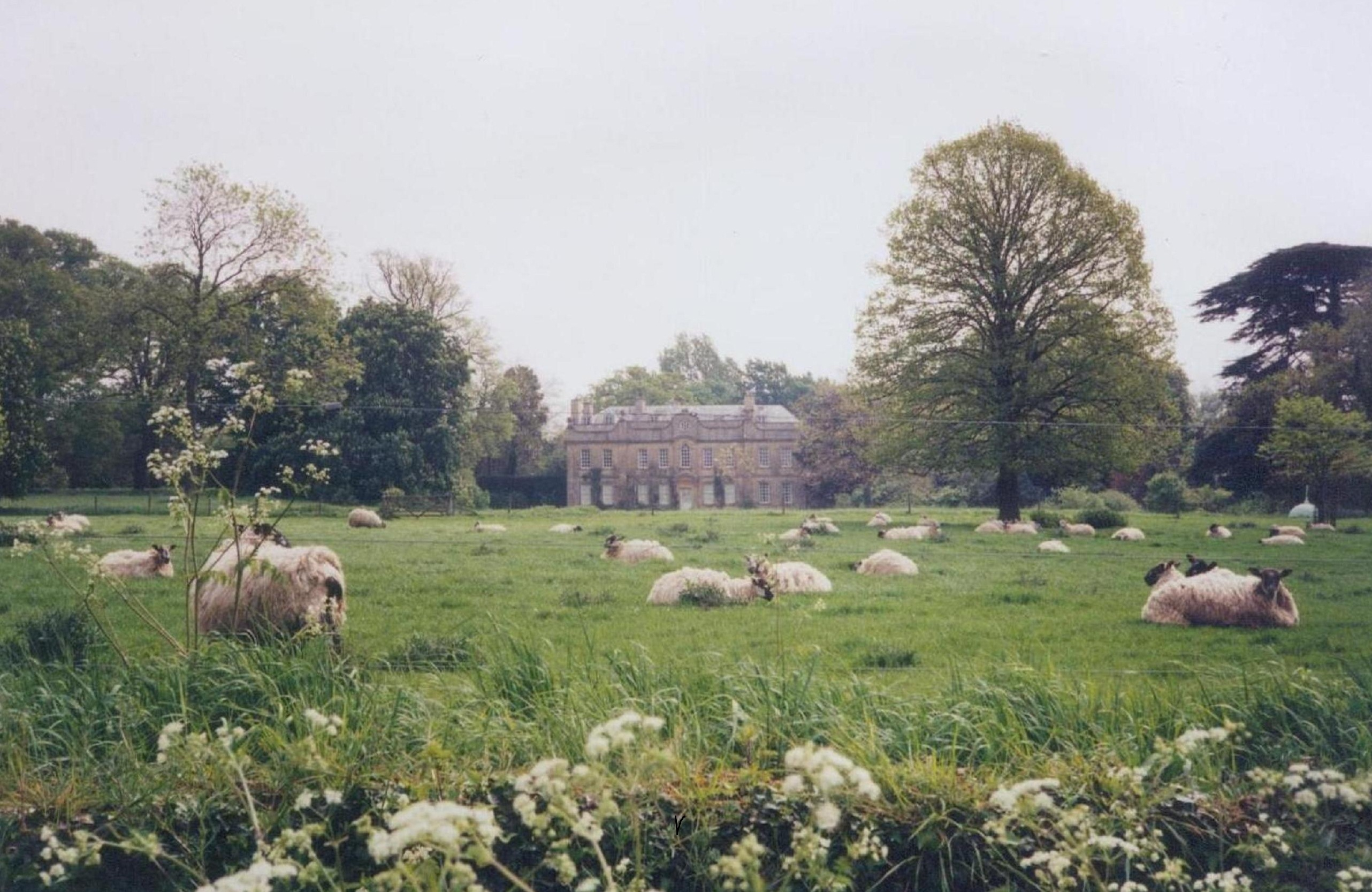 The west front of Kemerton Court, looking across the park from the lane